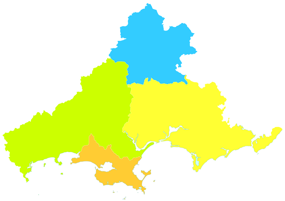 administrative division of Shanwei City, Guangdong, China